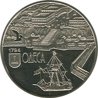 The reverse of commemorative coin of Ukraine "220 years of Odessa" (2014)